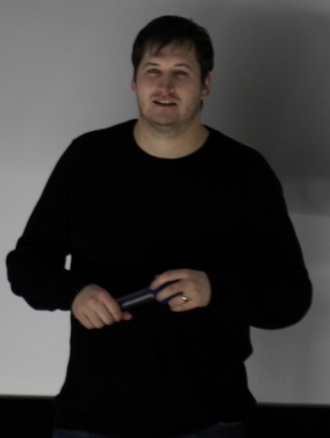 Gareth Evans on Stage